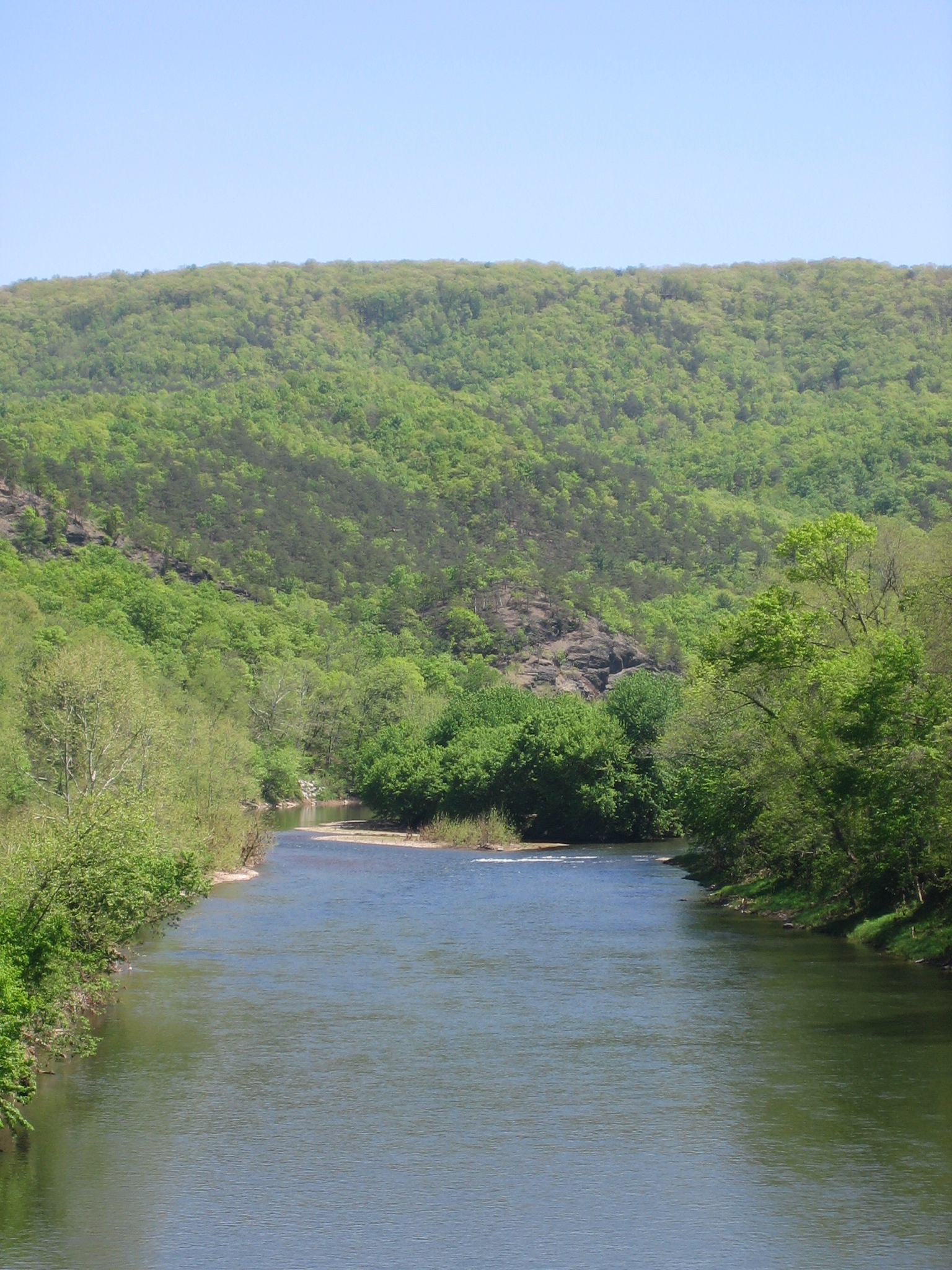 The South Branch Potomac River from the Springfield Pike (County Route 3) Bridge at Millesons Mill, West Virginia, United States.